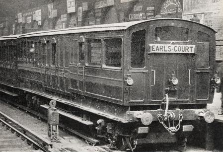 A joint Metropolitan and District Railway experimental electric train that ran between Earl's Court and High Street Kensington in 1900. Author labelled as unknown on the LT Museum website